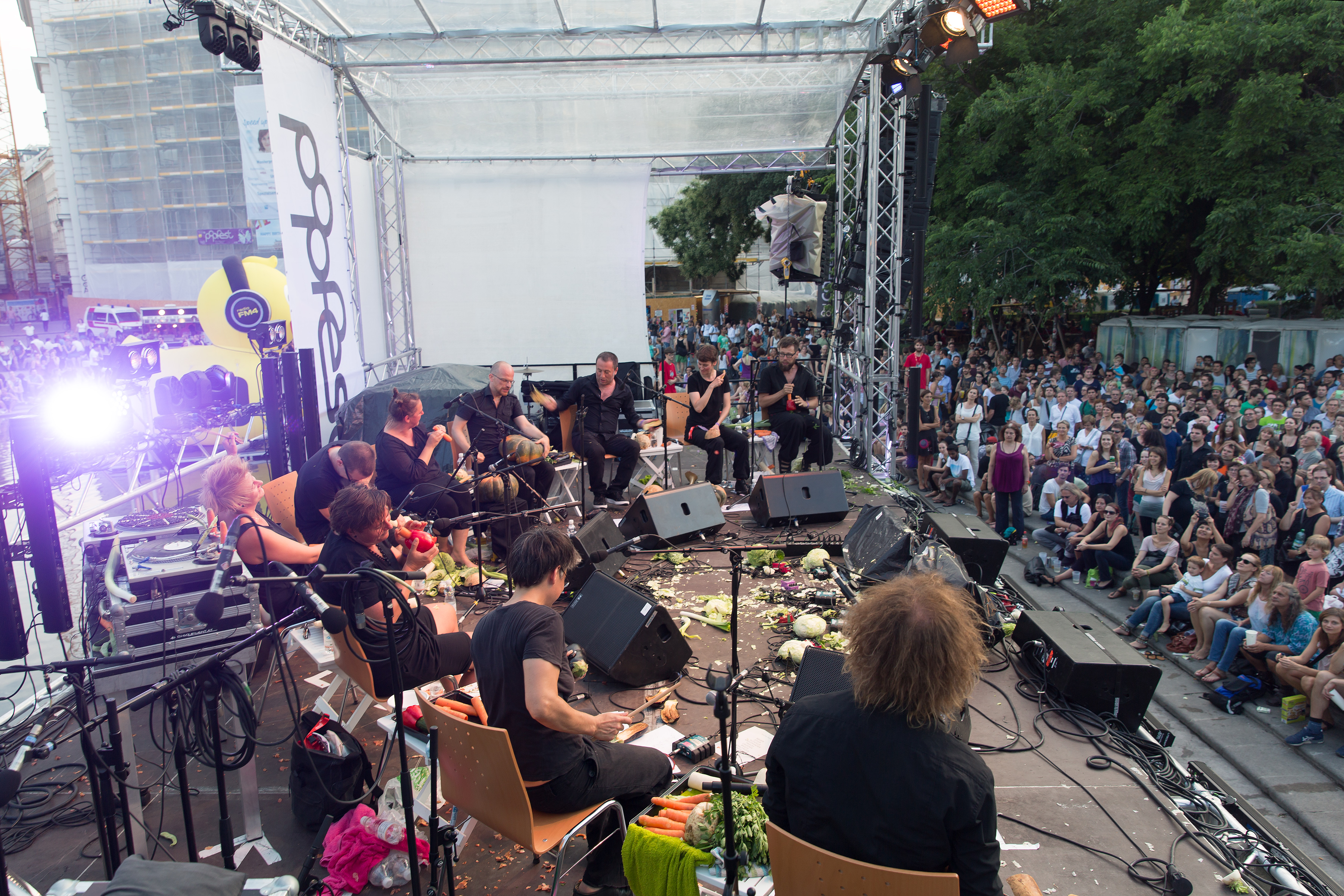 Popfest 2015: The Vegetable Orchestra; Karlsplatz in Vienna, Austria.